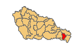 Location of municipality inside Međimurje County